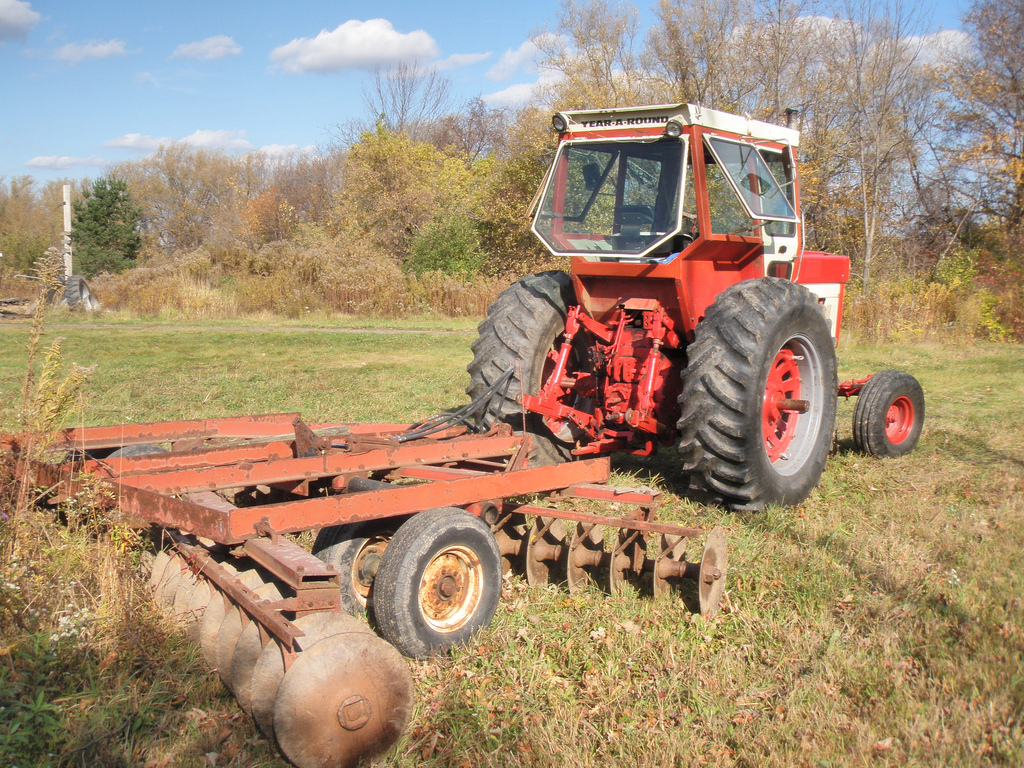 An International Harvester 1066 and a disk harrow